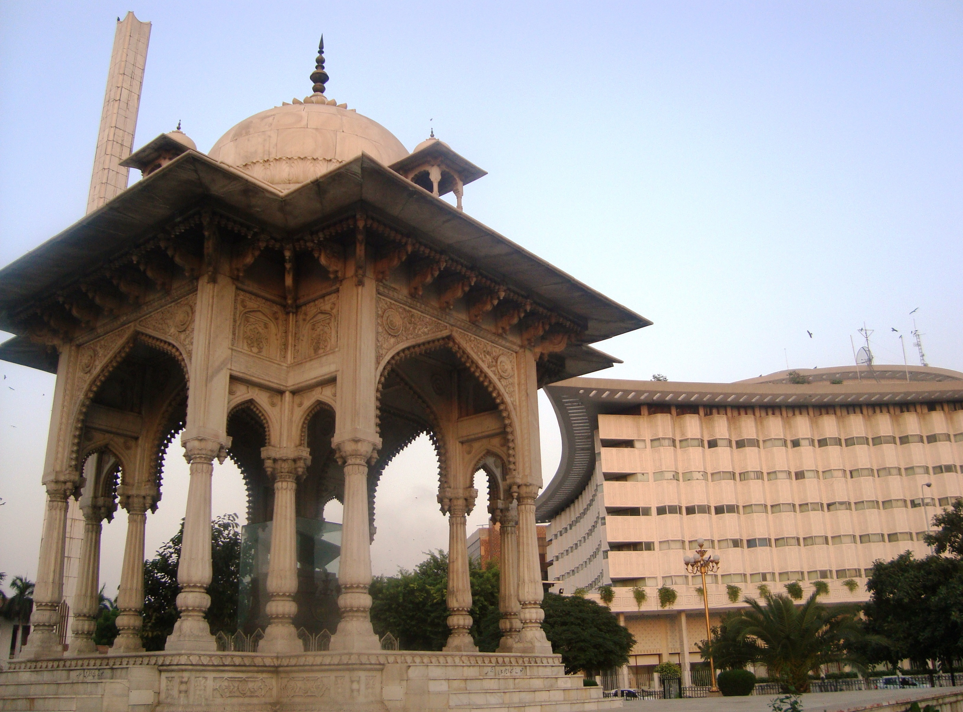 Islamic Summit Minar This is a photo of a monument in Pakistan identified as the PB-93